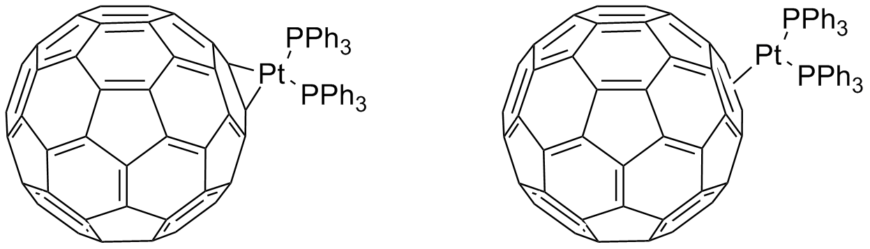 platinum binding modes on fullerene